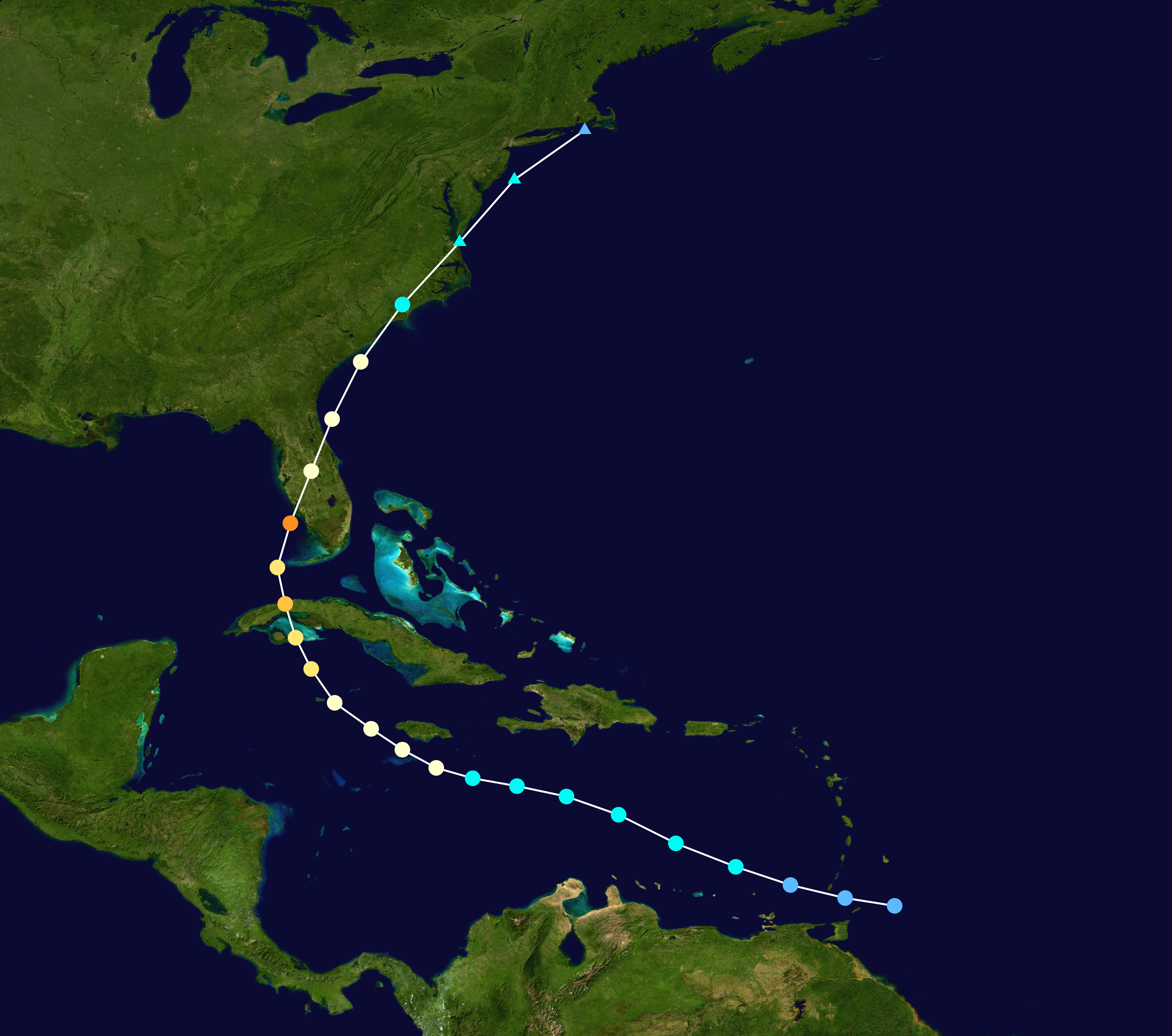 Track map of Hurricane Charley of the 2004 Atlantic hurricane season. The points show the location of the storm at 6-hour intervals. The colour represents the storm's maximum sustained wind speeds as classified in the Saffir–Simpson scale (see below), and the shape of the data points represent the nature of the storm, according to the legend below. Saffir–Simpson scale Tropical depression≤38 mph≤62 km/h Category 3111–129 mph178–208 km/h Tropical storm39–73 mph63–118 km/h Category 4130–156 mph209–251 km/h Category 174–95 mph119–153 km/h Category 5≥157 mph≥252 km/h Category 296–110 mph154–177 km/h Unknown Storm type Tropical cyclone Subtropical cyclone Extratropical cyclone / Remnant low / Tropical disturbance / Monsoon depression